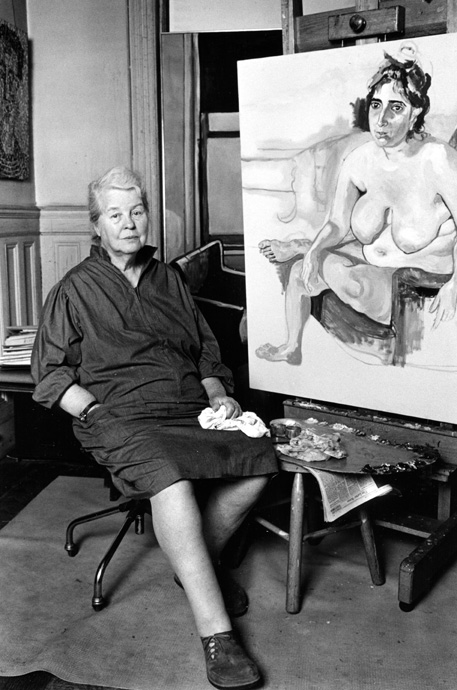 Alice Neel portrait in her studio by ©Lynn Gilbert 1976, New York.